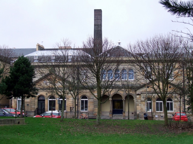 Arlington Baths